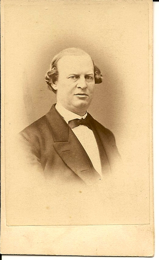 Swedish politician from late nineteenth century